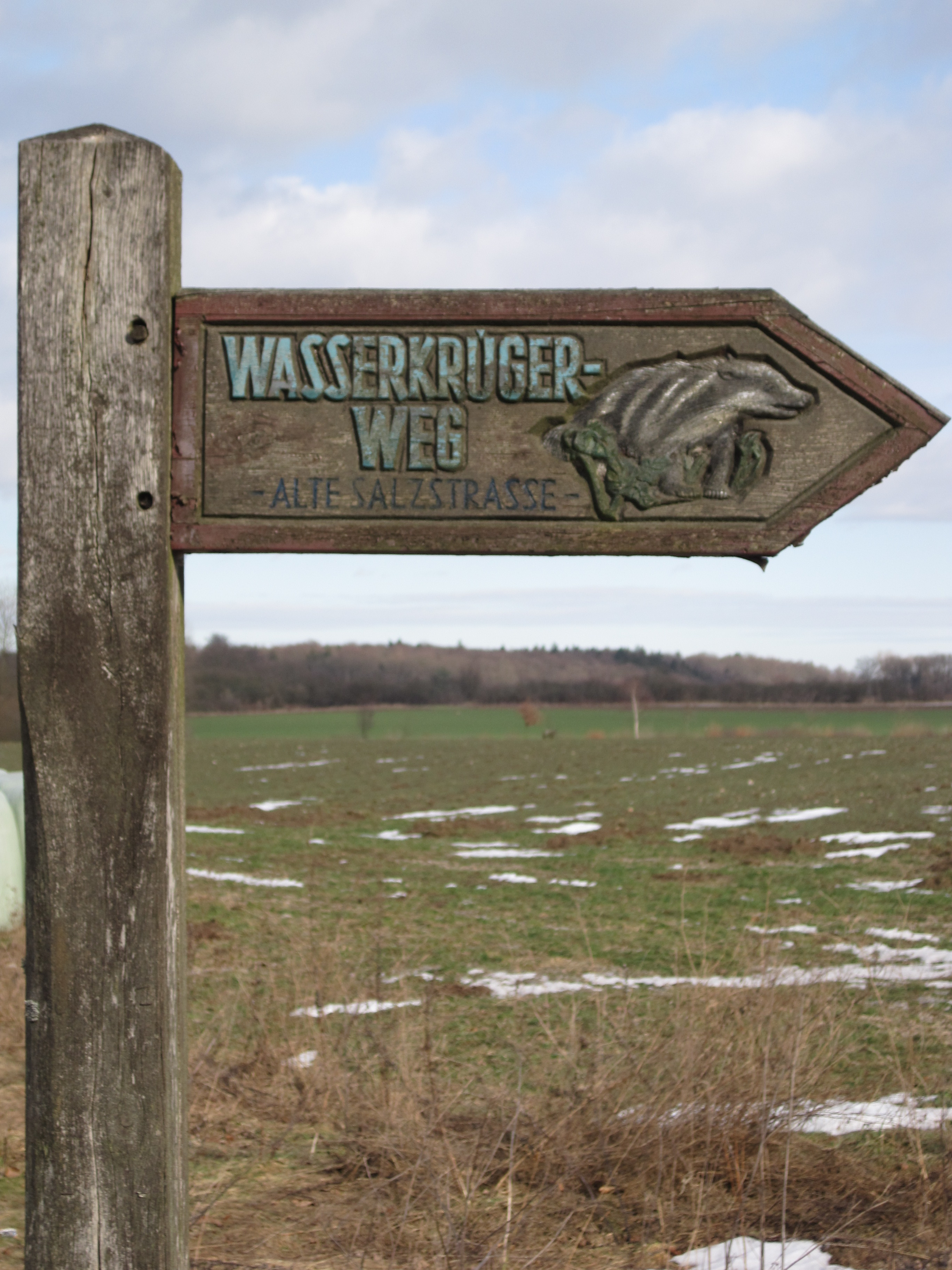 Sign for hikers on the Old Salt Road in the Lauenburg forests in Fredeburg